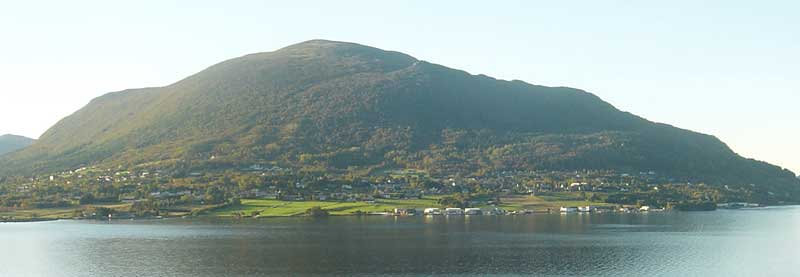 Eide and the mountain Silsetfjellet